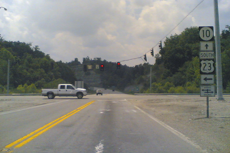 Intersection of United States Route 23 with Kentucky State Route 10 (AA Highway) in Greenup County, Kentucky, United States just off the Jesse Stuart Memorial Bridge